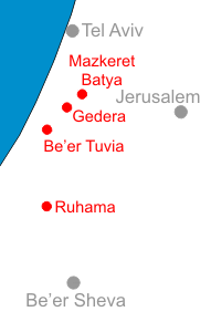 Map of the villages guarded by HaMagen organization, based on an SVG map by User:Costello on HeWiki.